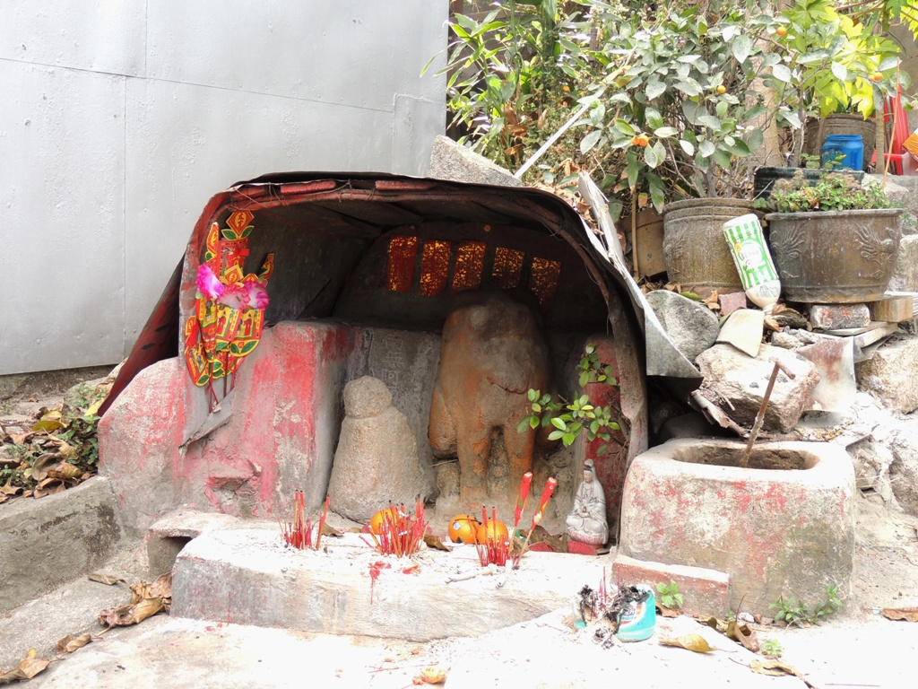 Shrine with Stone Dog, Tai O. The triangular-shaped stone symbolizes the local Earth God.